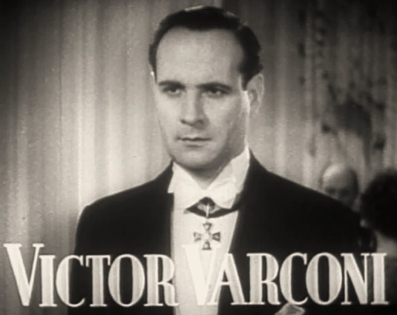 Hungarian-born American actor Victor Varconi in Roberta - trailer (cropped screenshot)